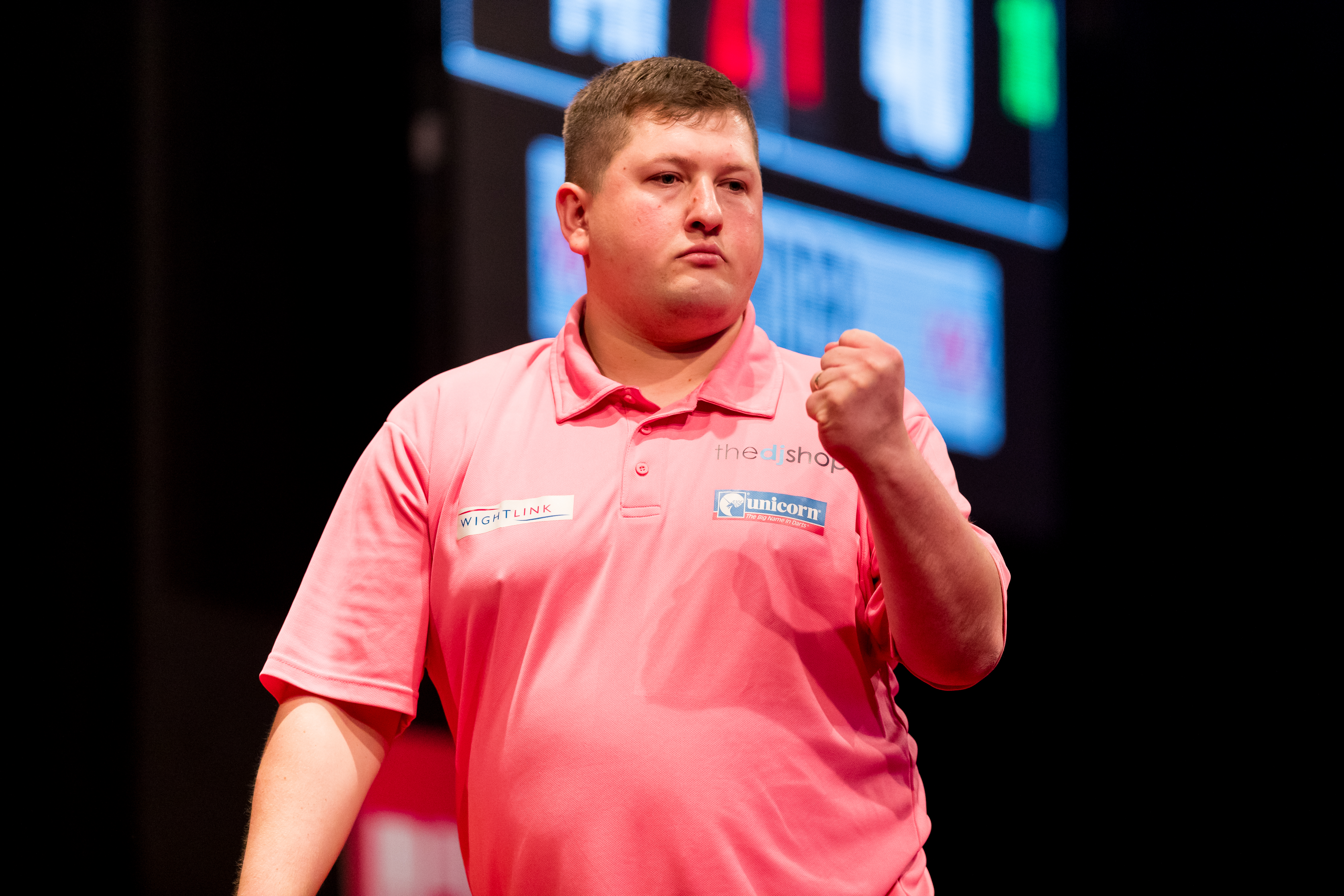 Keegan Brown 6:3 Simon Whitlock during PDC Europe Darts Matchplay at Maimarkthalle, Mannheim, Baden-Württemberg, Germany on 2019-09-06, Photo: Sven Mandel